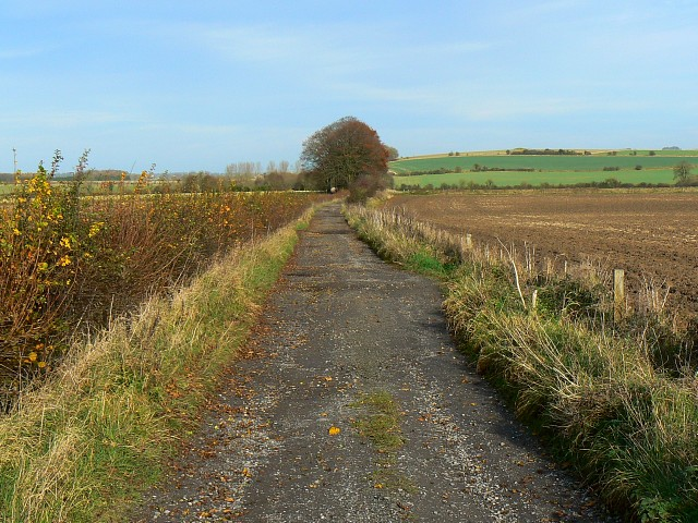 White Horse Trail, west of Beckhampton The byway, for such it is, also forms the boundary between parliamentary consituencies, Devizes, to the right, and North Wiltshire. Both are Conservative strongholds.